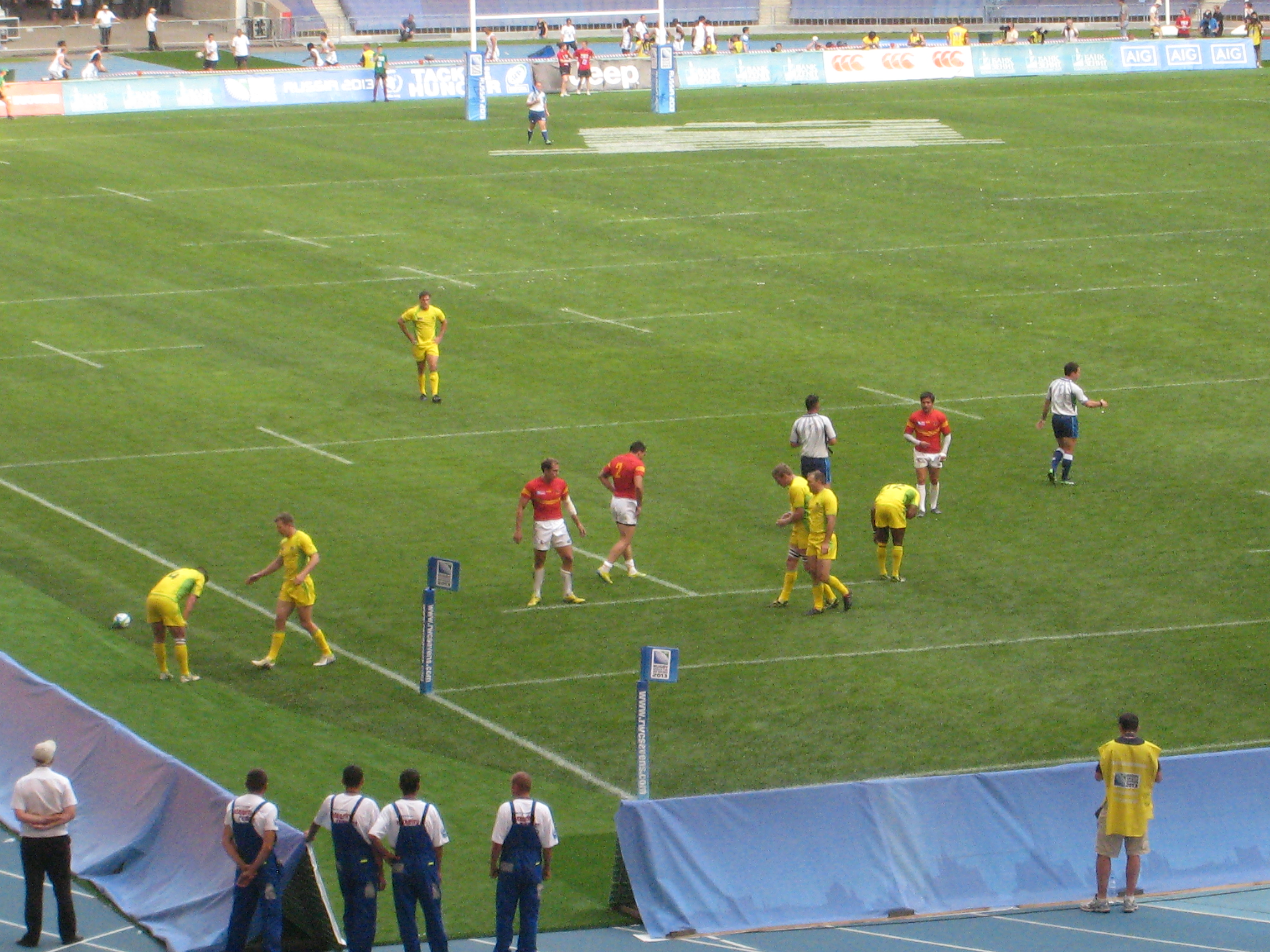 First Day of the 2013 Rugby World Cup Sevens in Moscow